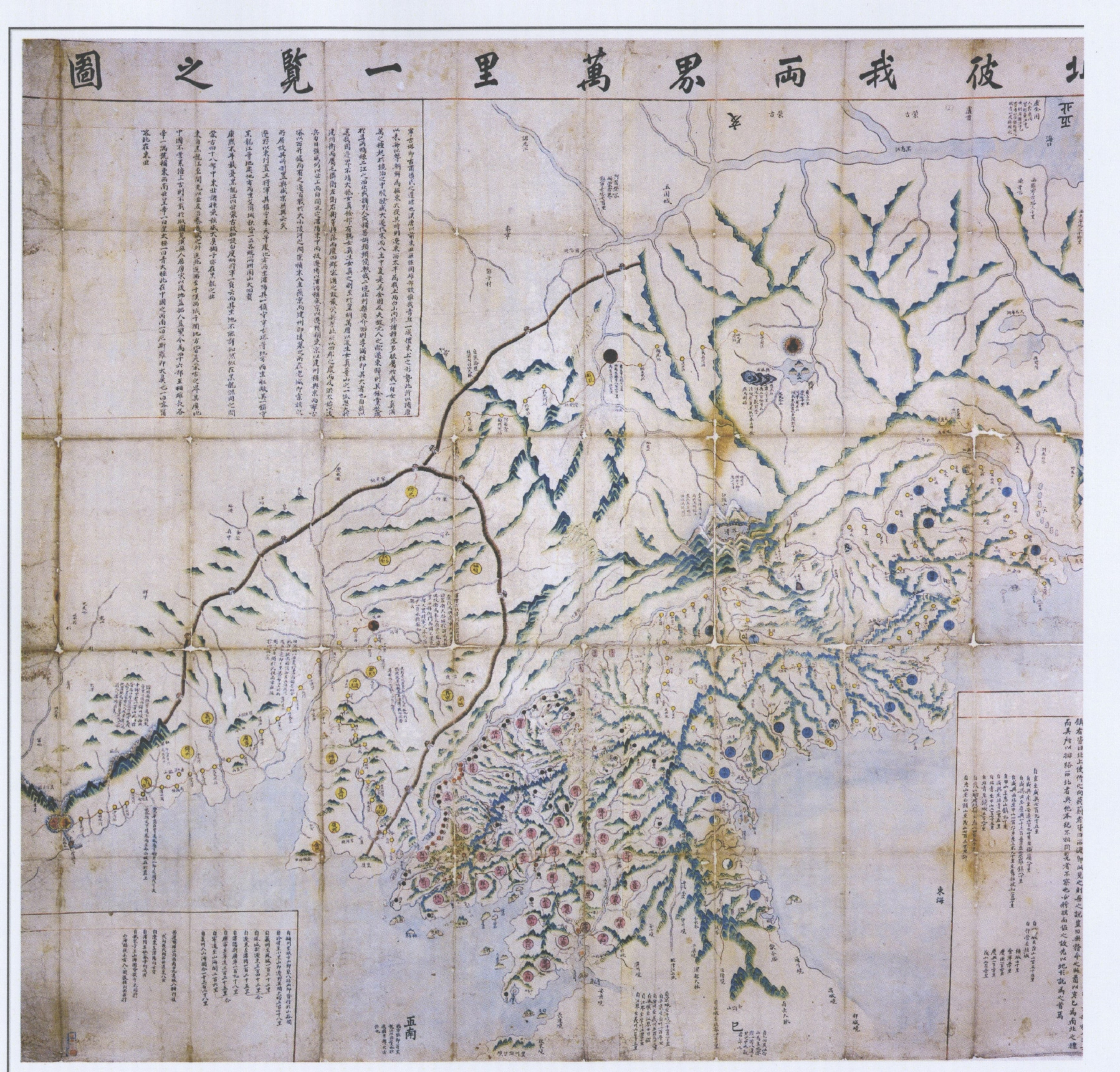 An Korean old map of "Seobuk Pia Yangye Malli Ilram Jido", of which literally refers to Northern West regions of Joseon and Qing china. It includes current Manchria and Russian region of Primorsky Krai where a great deal of Koreans lived throughout Joseon period.